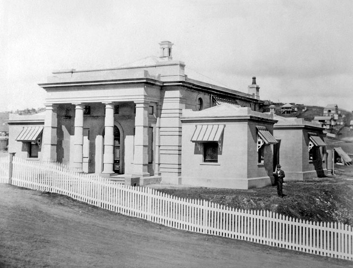 Court House, Mount Morgan. (Alternative name is Court House and Police Station, Hall Street, Mount Morgan.)